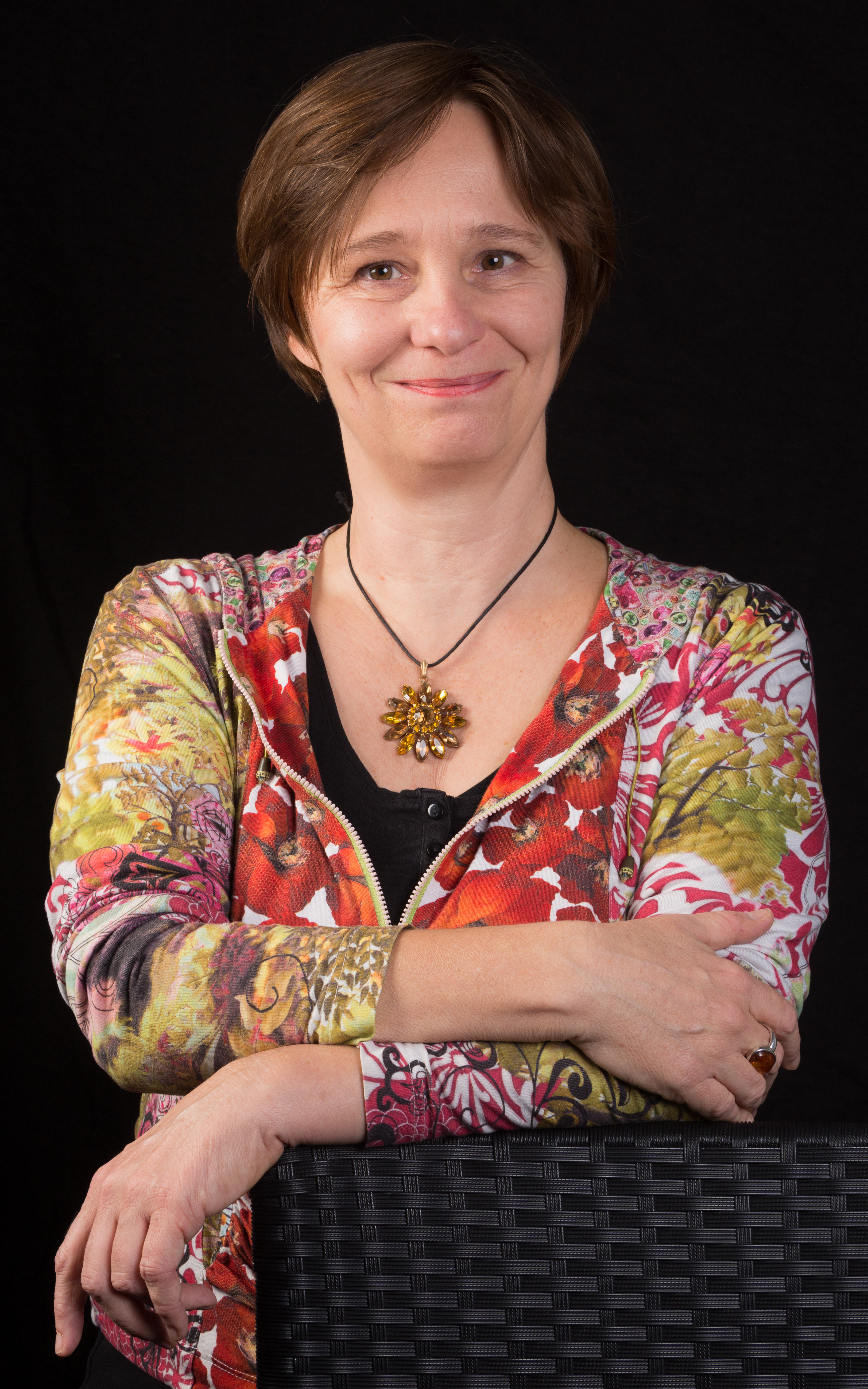 Heike Wiechmann at the Frankfurt Book Fair 2017